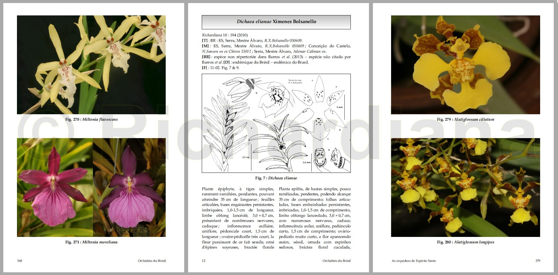 03 páginas internas da coleção Orquideas da Serra do Castelo, volume 04